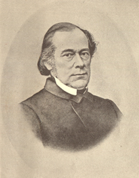 Viktor Aimé Huber, German social reformer and writer.